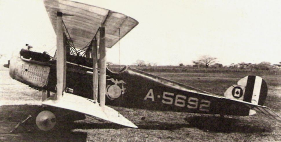 A Vought VE-7F (BuNo A5692) from U.S. Marine Corps observation squadron VO-1M in Santo Domingo, Dominican Republic, circa 1922.